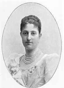 Portrait of Archduchess Karoline Marie of Austria